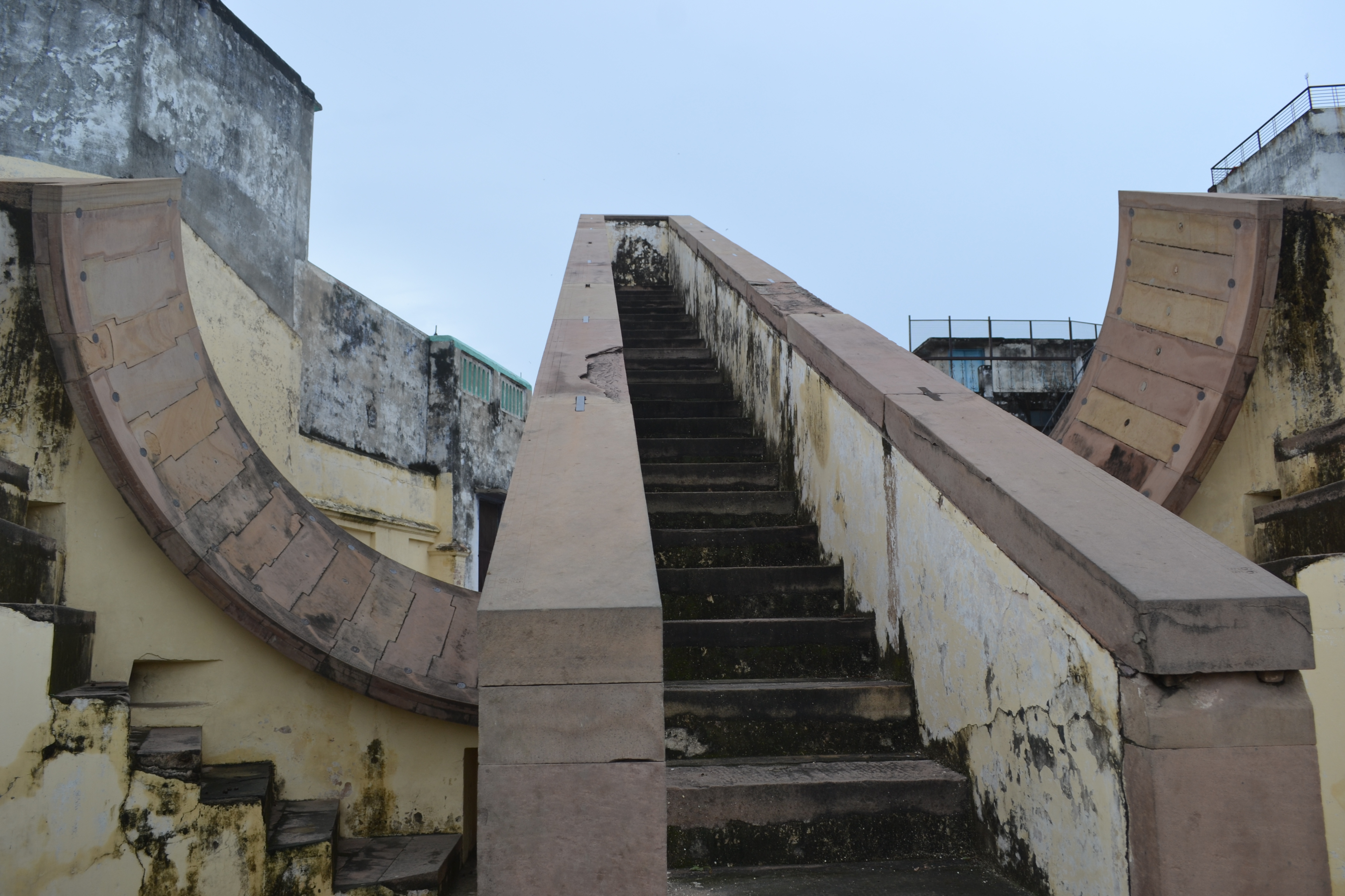 Observatory of Mansingh